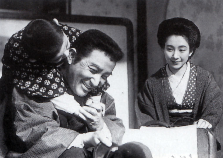 still photo from "Rickshaw Man" 1943